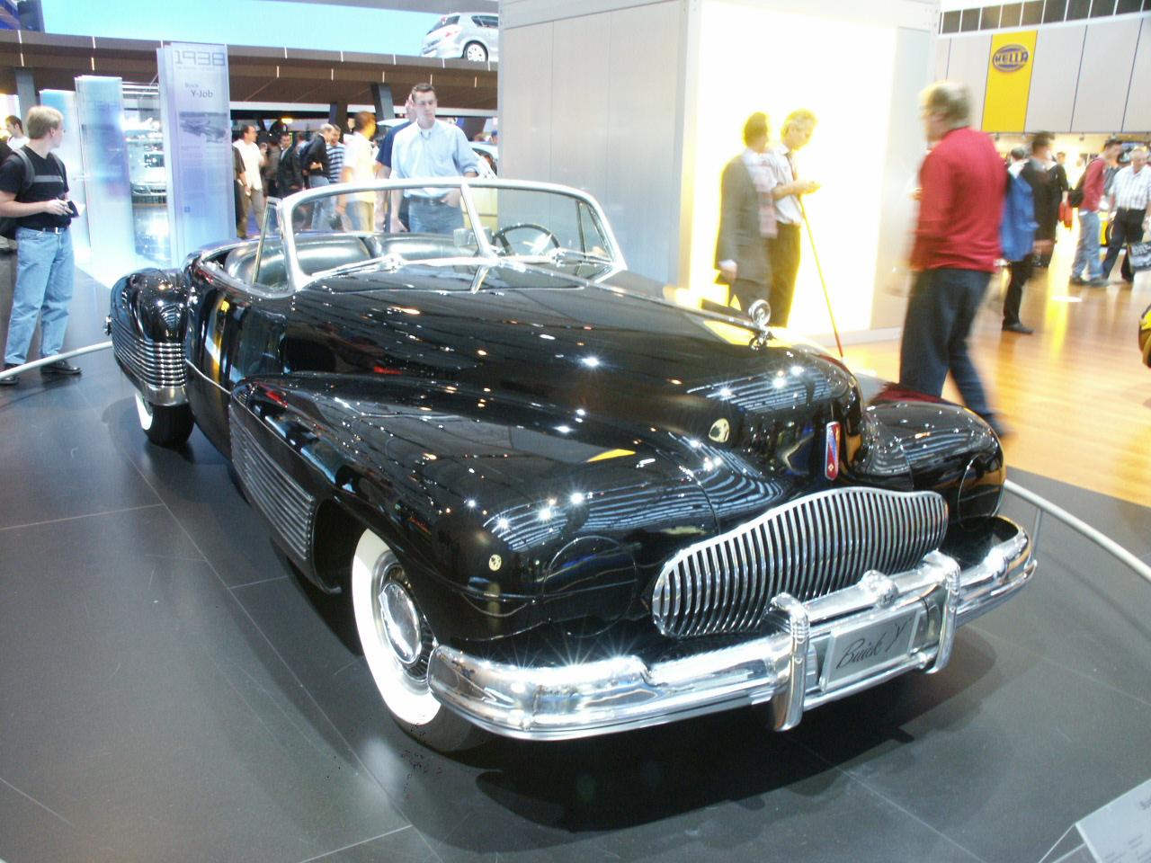 Buick Y-Job